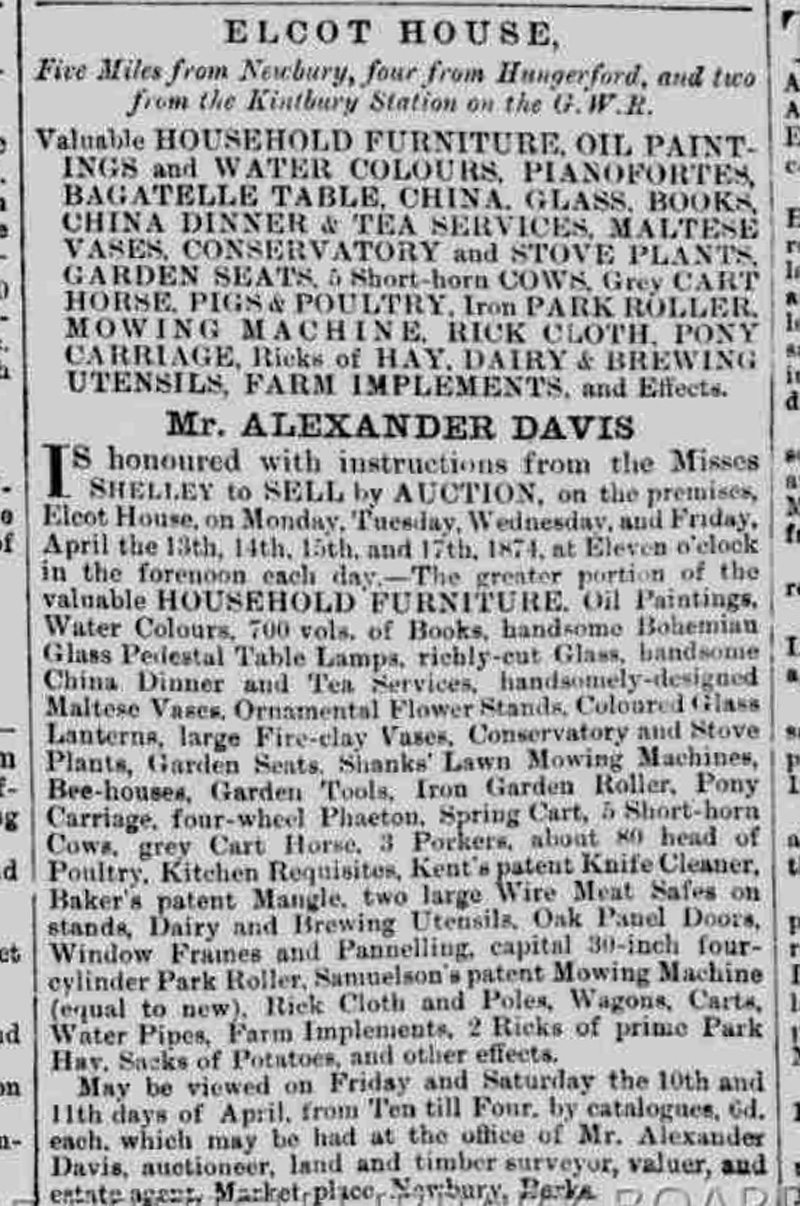 Advertisement for the sale of the furniture of the Misses Shelley at Elcot House in 1874